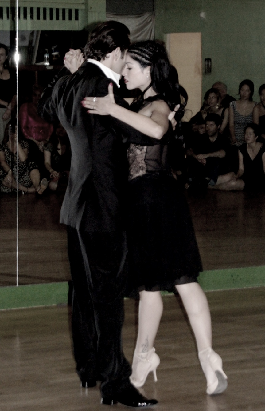 Geraldine Rojas dancing with Ezequiel Paludi performing Argentine tango in San Francisco's "Studio Gracia" on Sunday February 19, 2012 at around 10.45pm. She performed in "Forever Tango" the same day and they were teaching tango workshop. It was her first workshop in San Francisco.